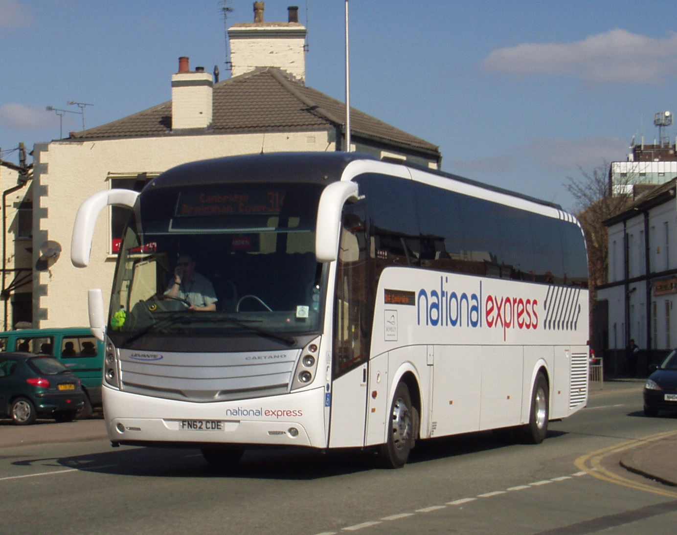 Selwyn's of Runcorn Caetano Levante coach in National Express livery, pictured in Widnes.